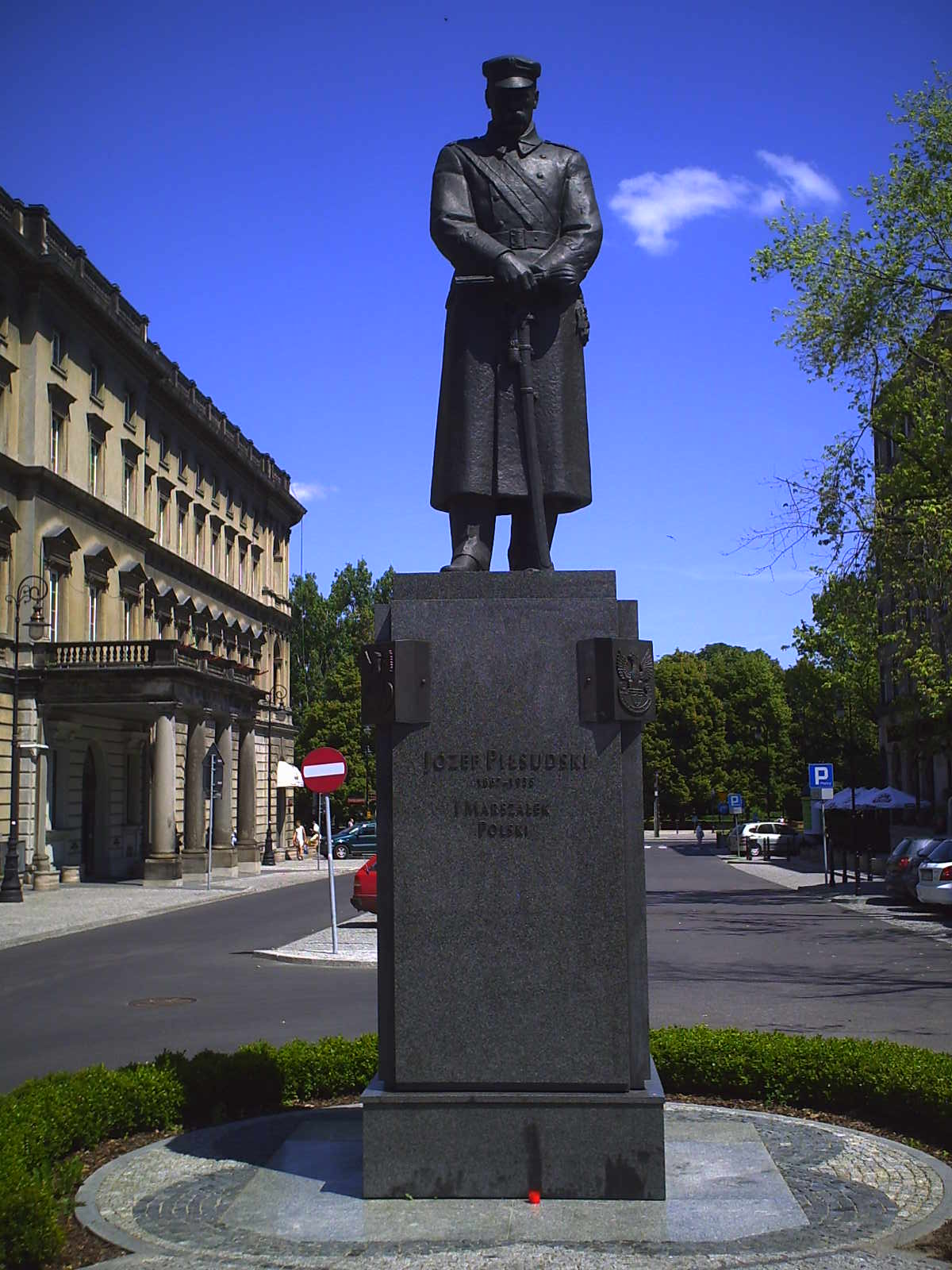 Monument of Józef Piłsudski in Warsaw, Poland.